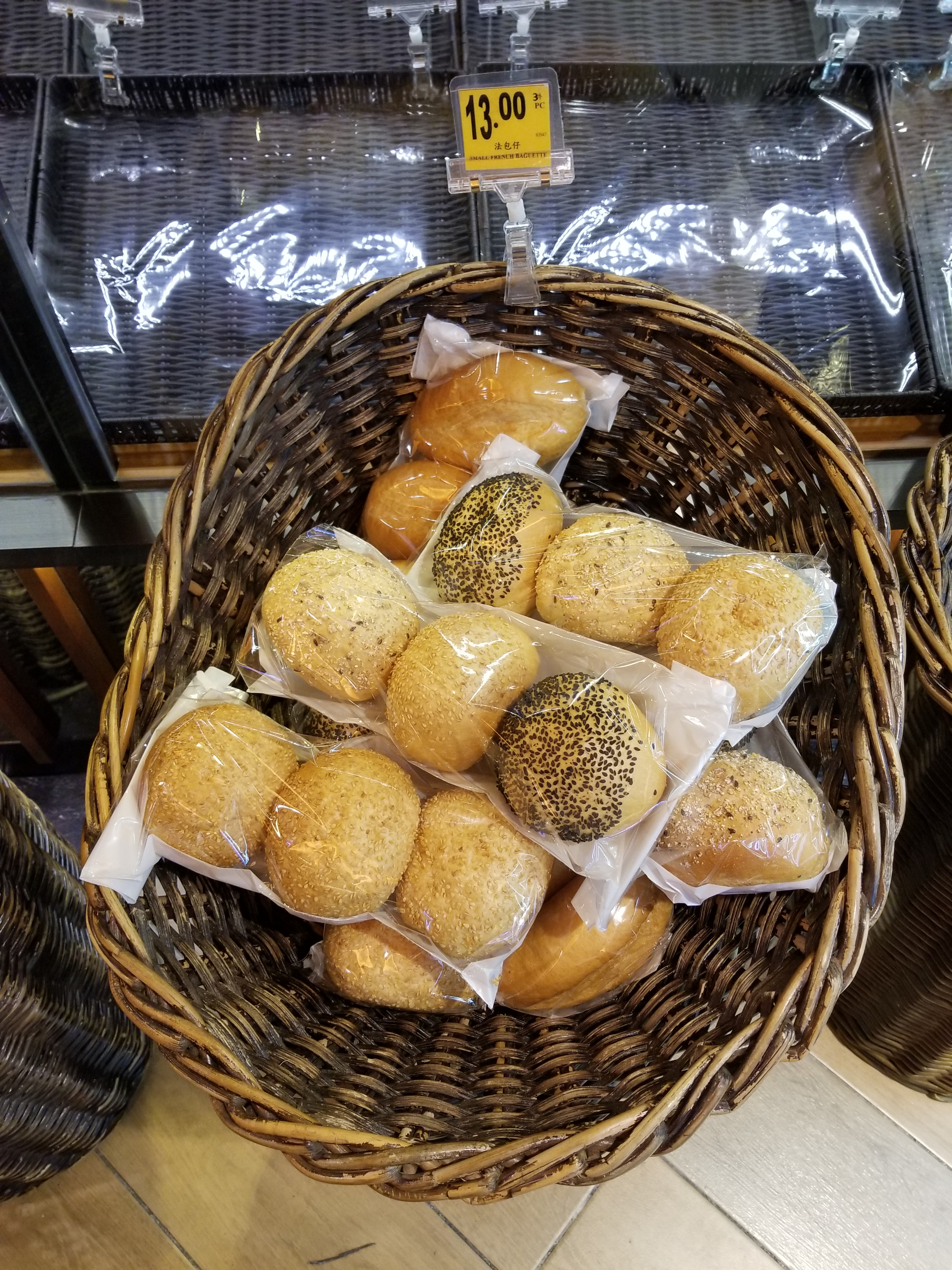 Some different bread in Supermarket